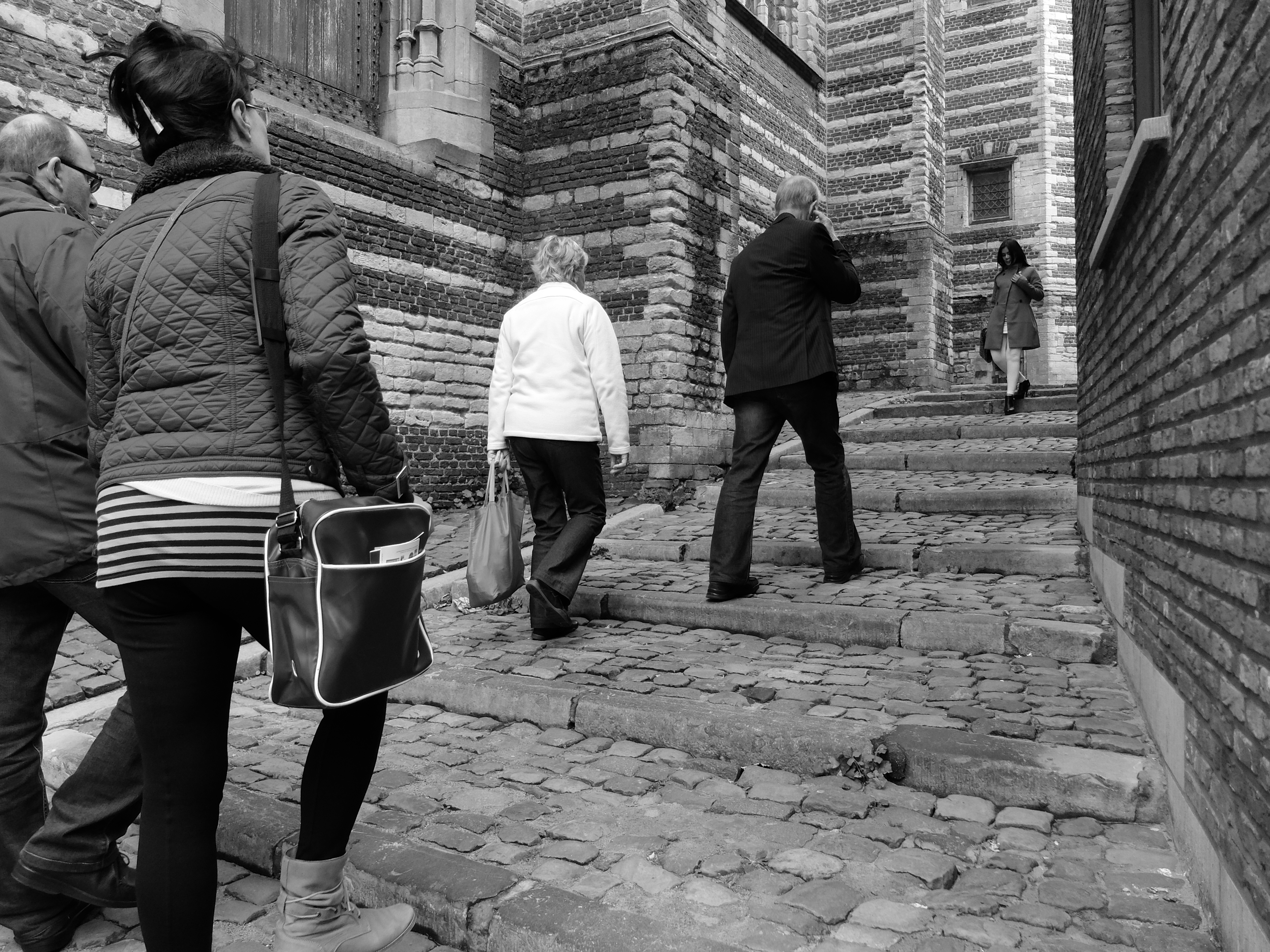 Repenstraat in Antwerp nearby the Burchtgracht